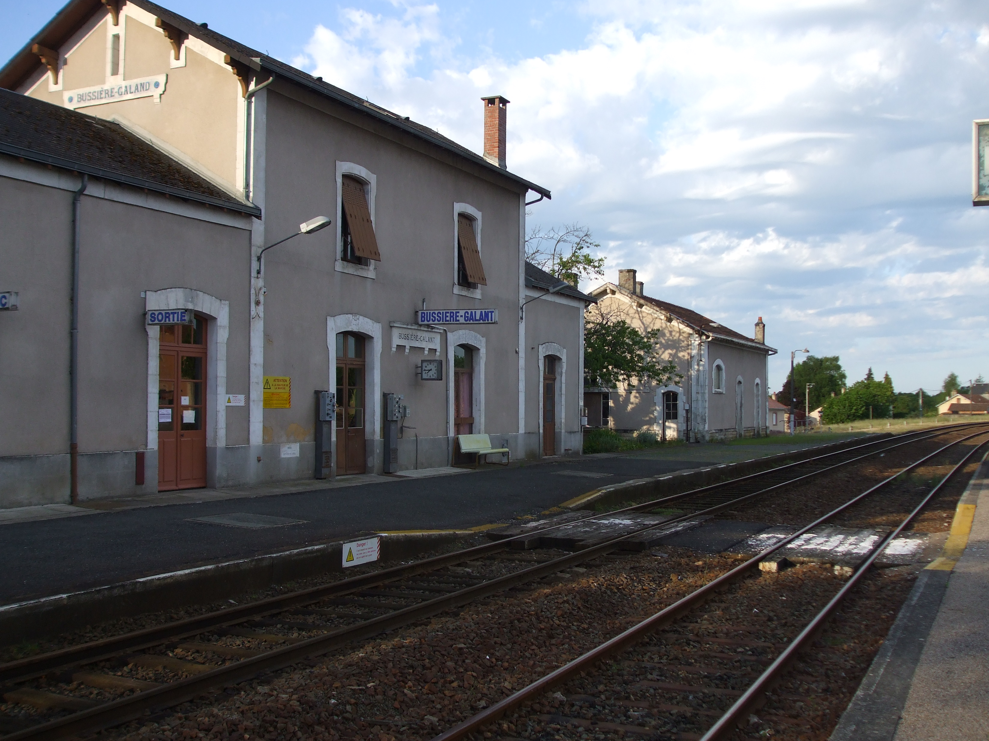 Bussière-Galant's train station, Haute-Vienne, France